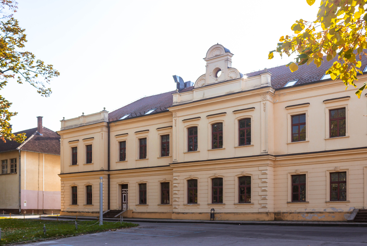 Museum